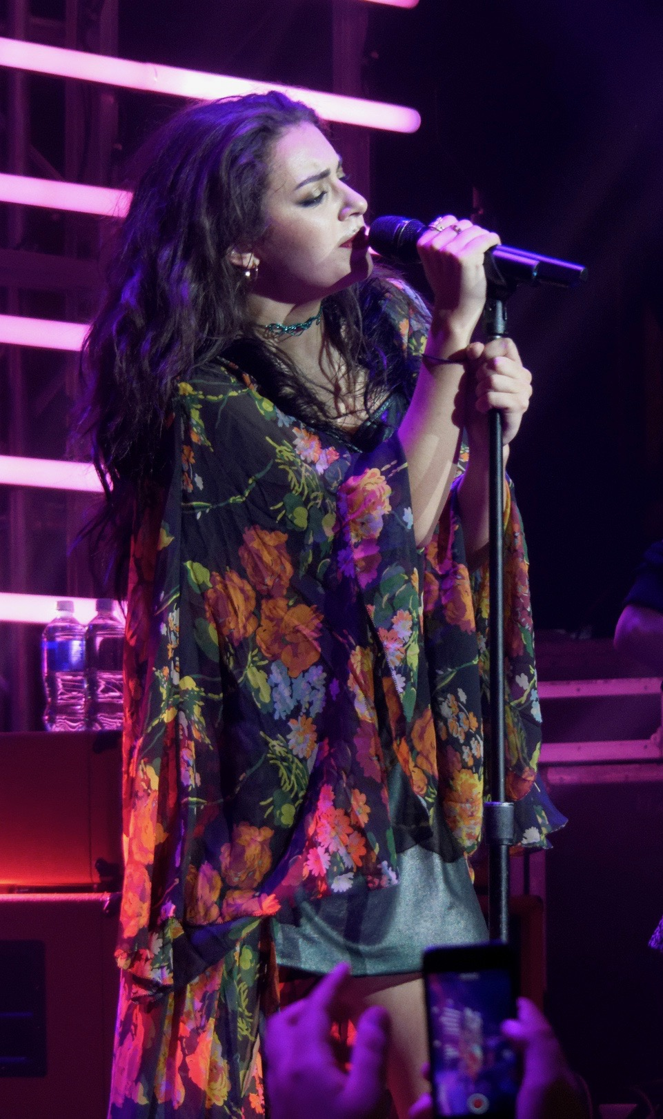 Charli XCX performing at the VMAs' "Artist to Watch" Concert in Hollywood, California (cropped)